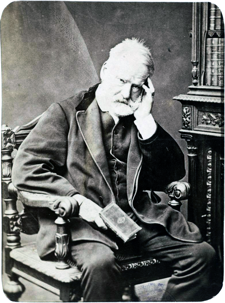 French poet Victor Hugo, Photogravure